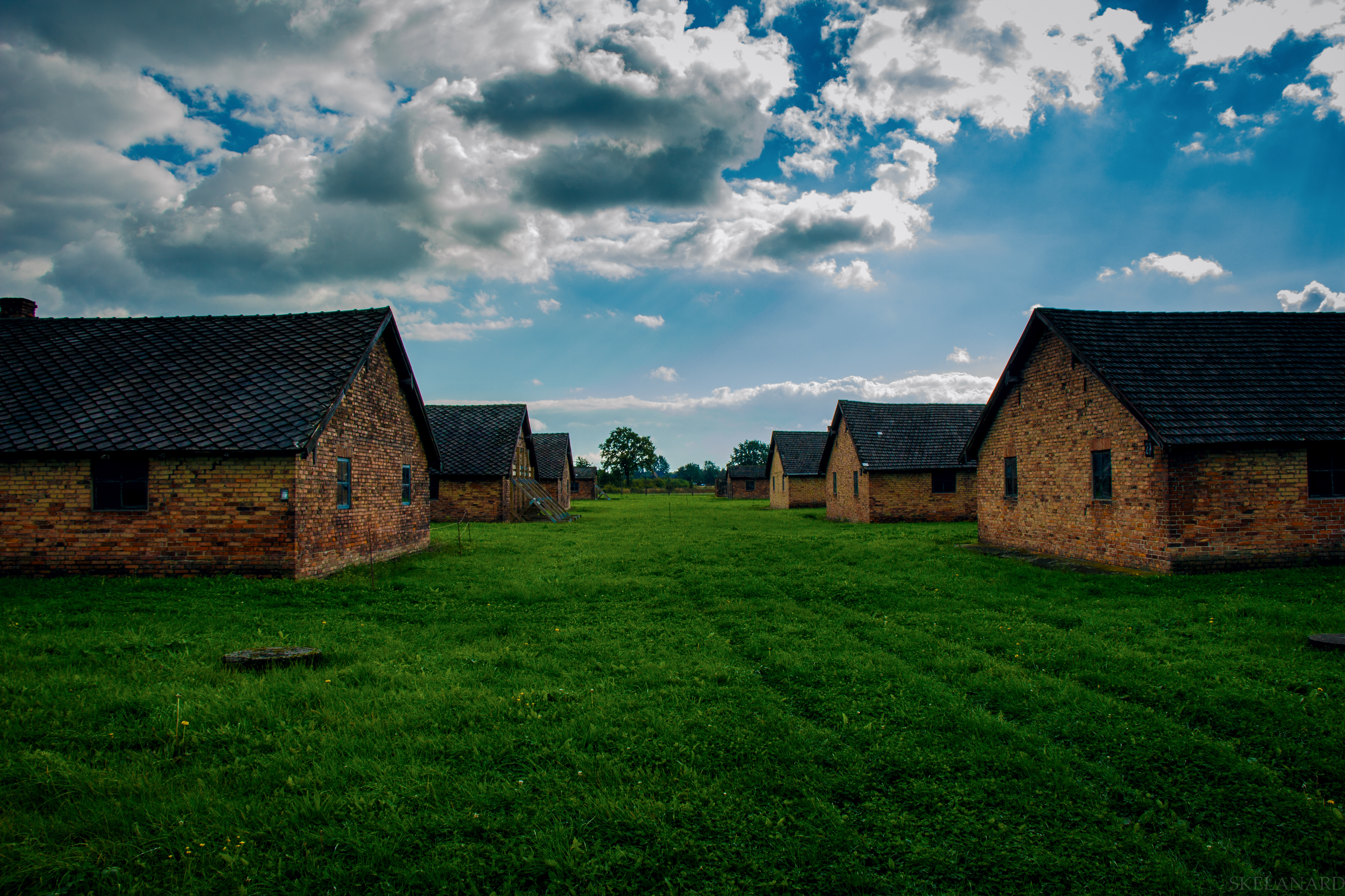 Barracks in Auschwitz II Birkenau